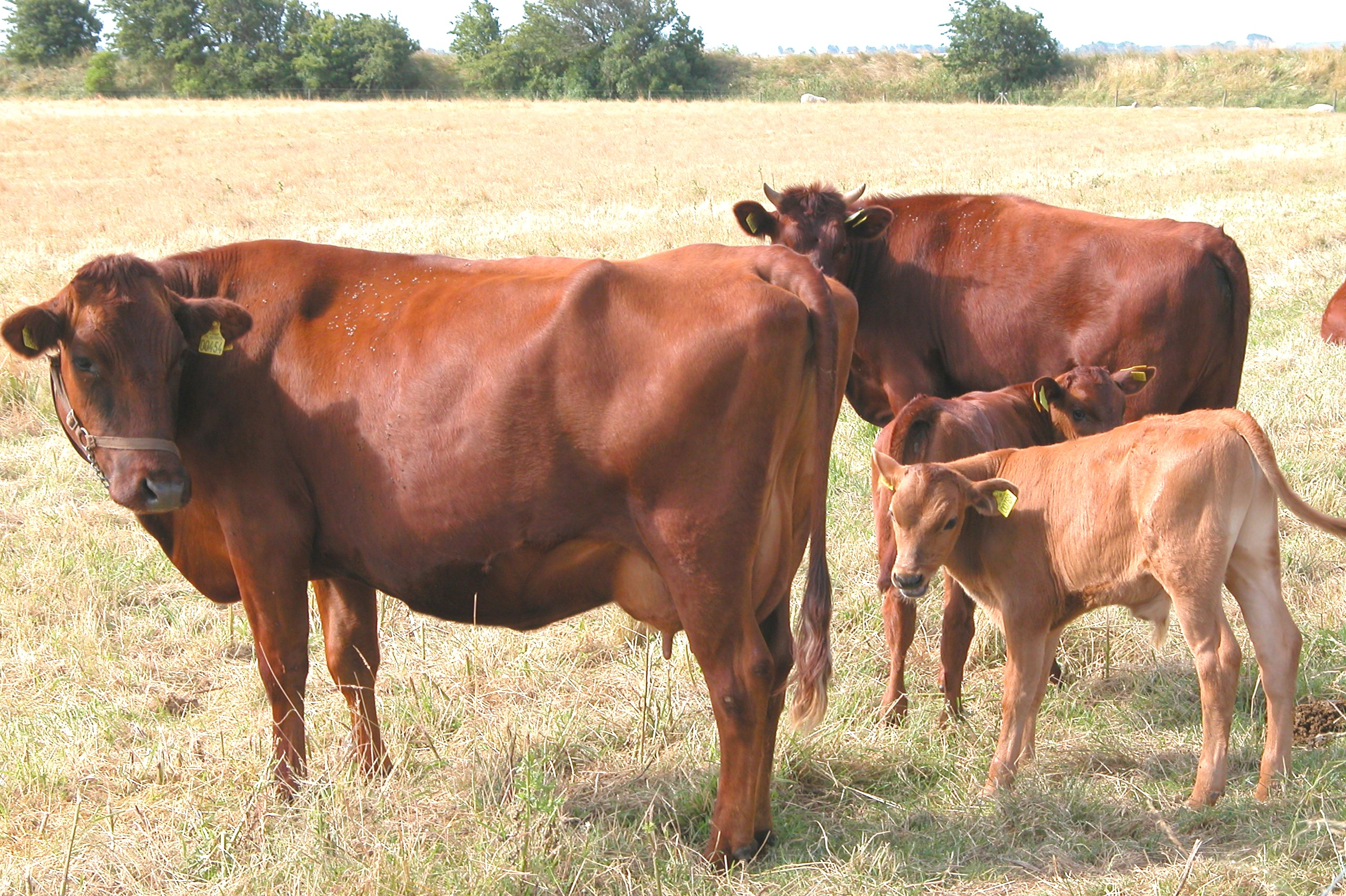 Danish Red cattle, also known as Red Danish or Red Dane